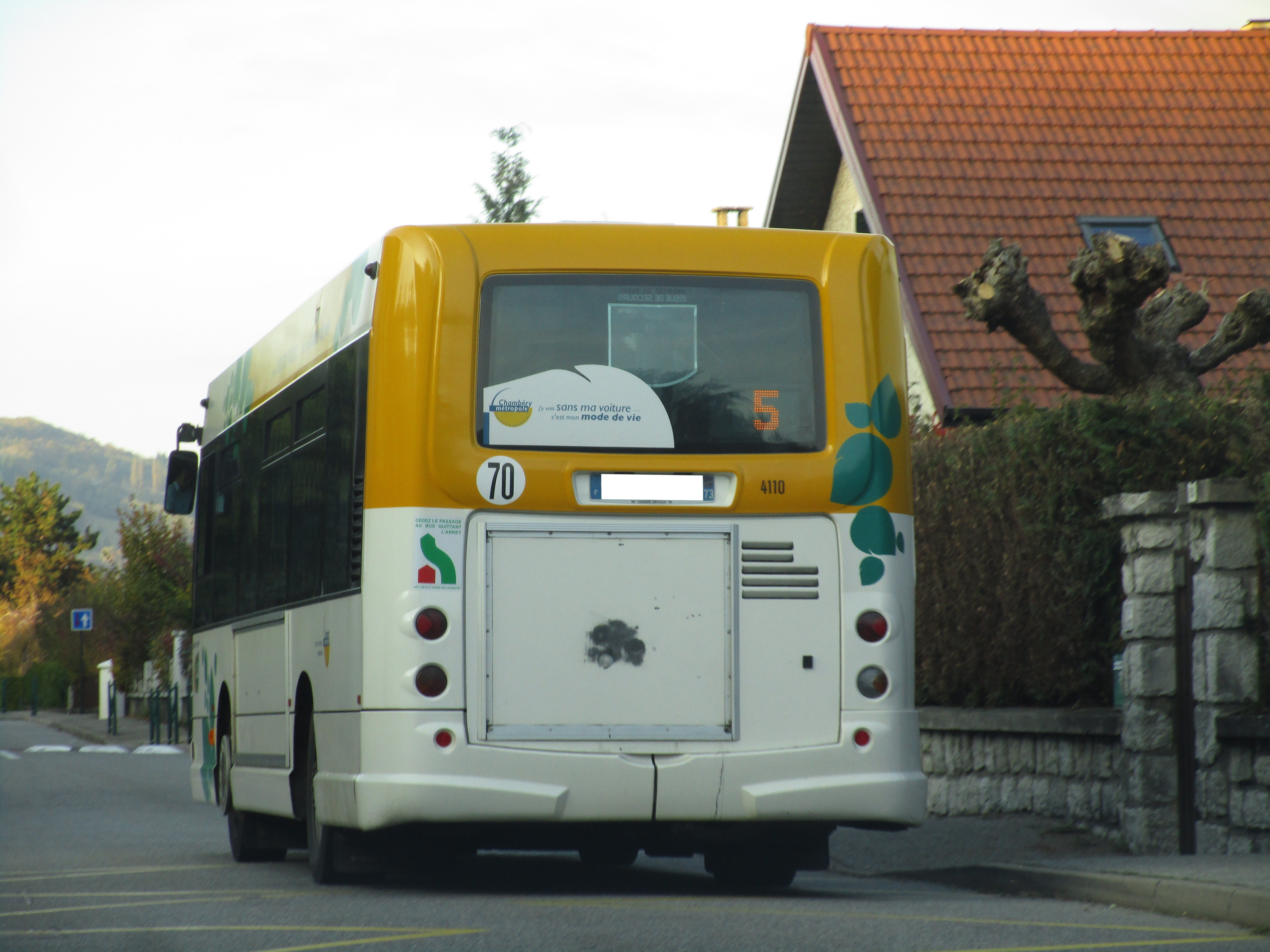 The bus Heuliez GX 117 n°4110 of the STAC, on the line 5 (Monge, Chambéry↔Haut des Lamettes, Barberaz), in Barberaz on November 3, 2016.